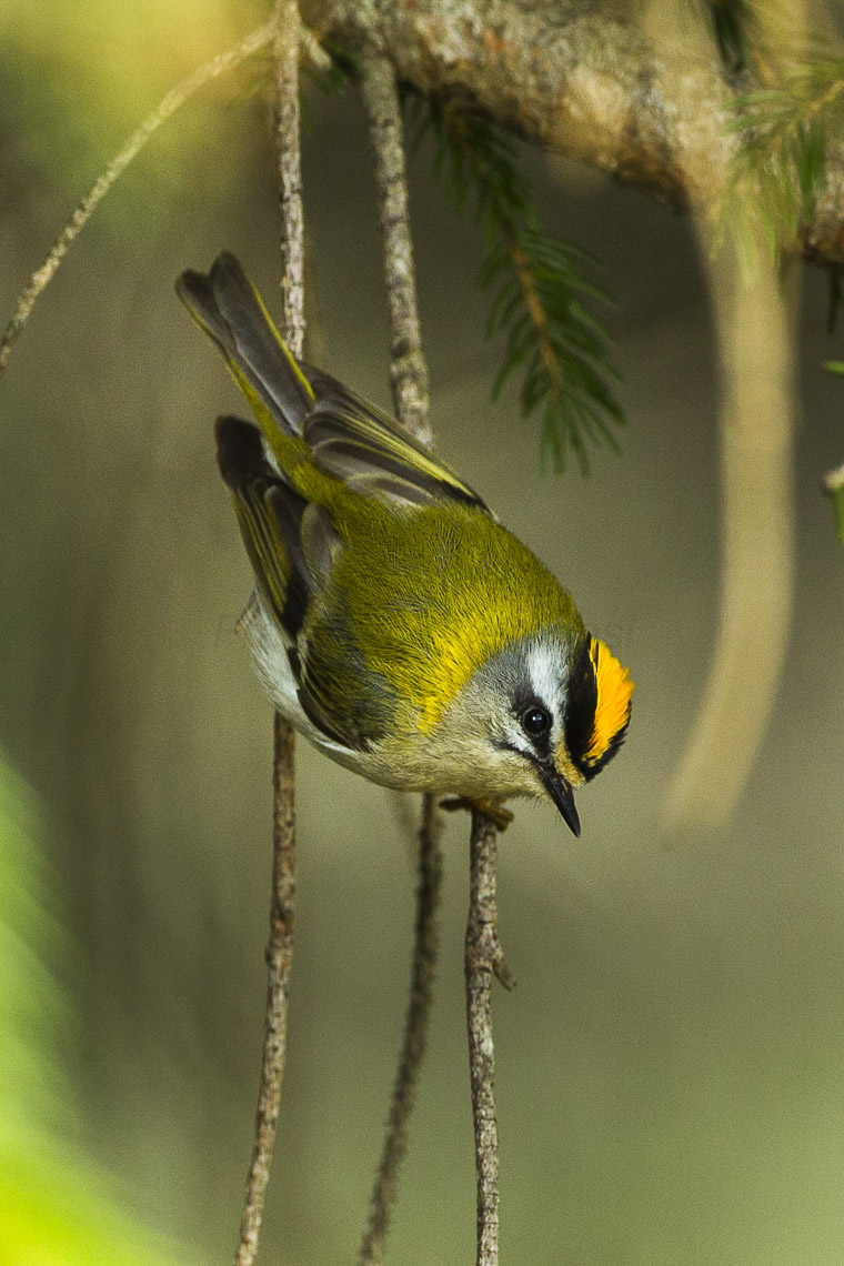 Firecrest - Appenines - Italy_S4E5211